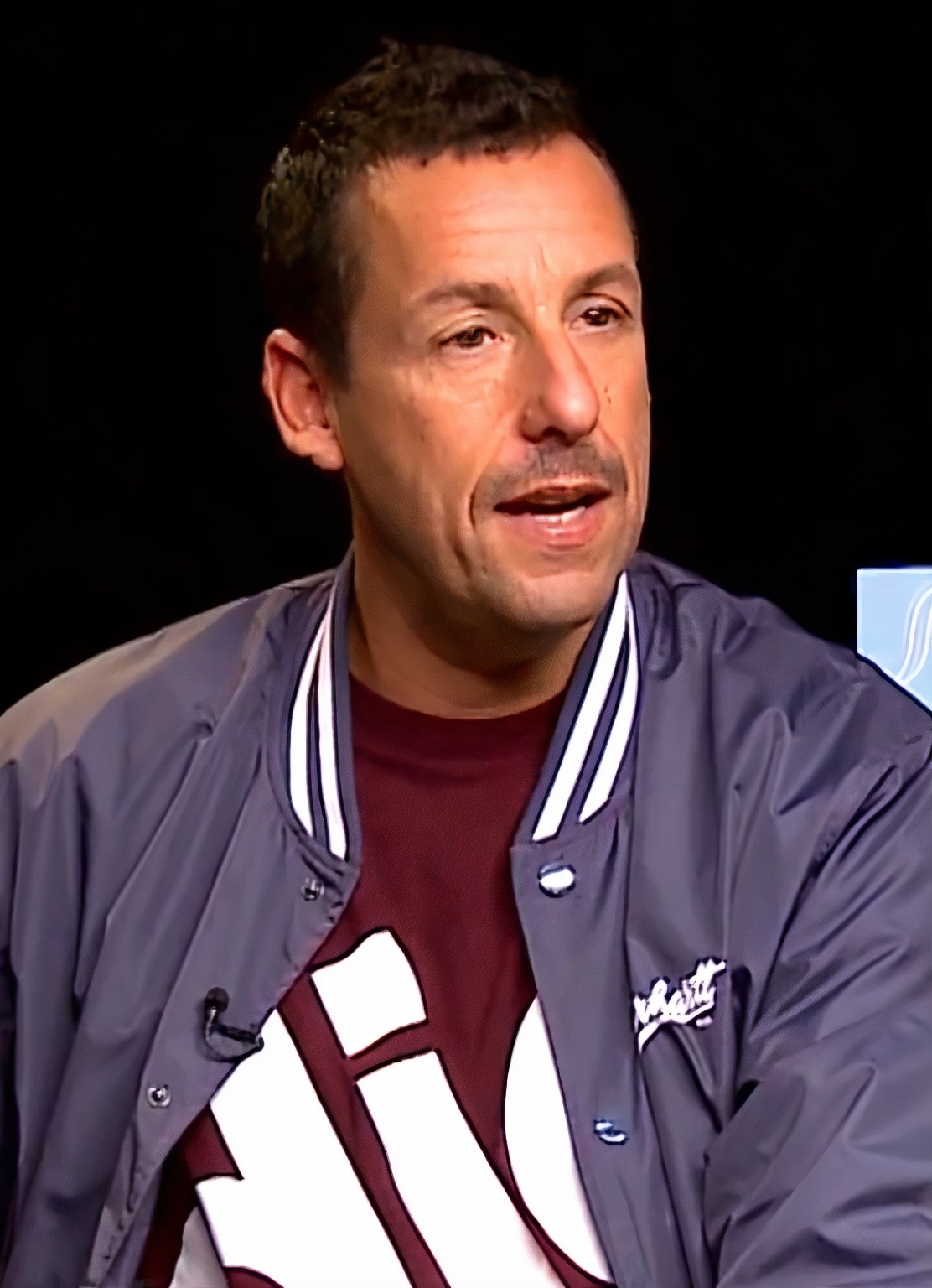 Adam Sandler being interviewed in 2018